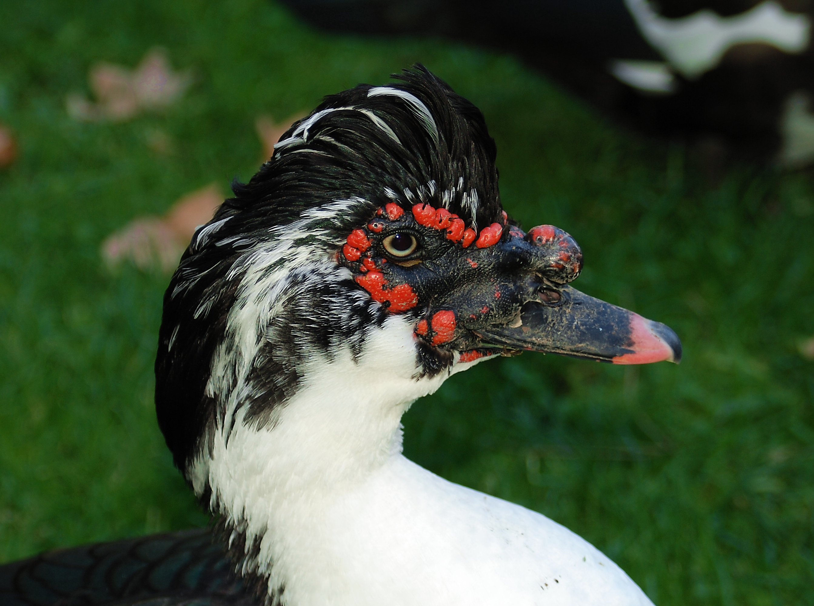 Head of a Muscovy Duck (Cairina moschata) at Estrela Garden, Lisbon